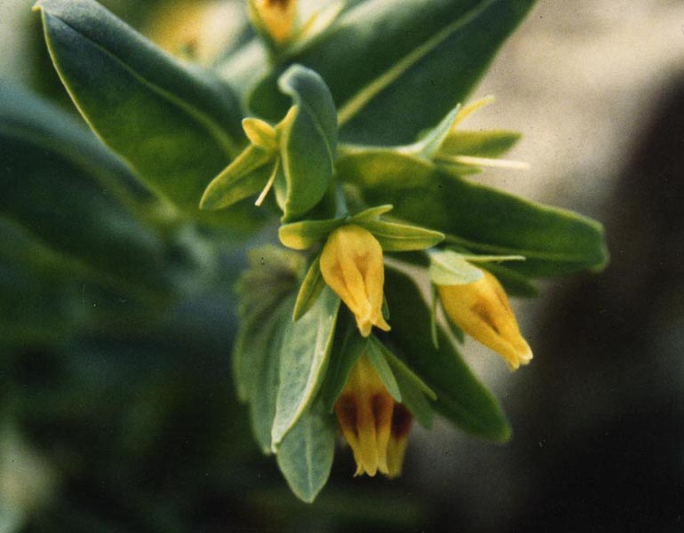 Cerinthe glabra